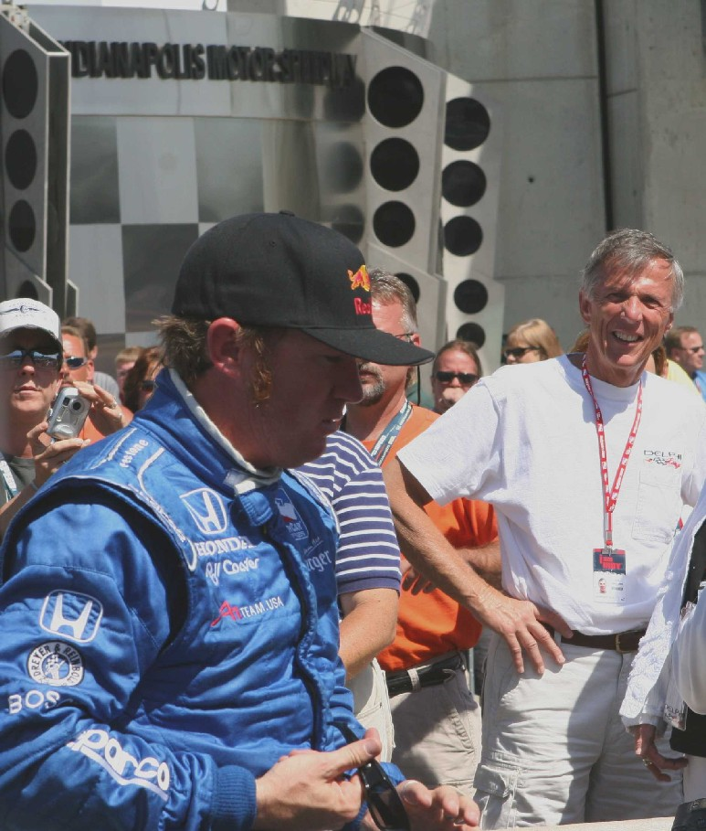 Buddy Rice recovers from a tough qualifying attempt for the 2007 Indy 500. Photo by Tim Wohlford